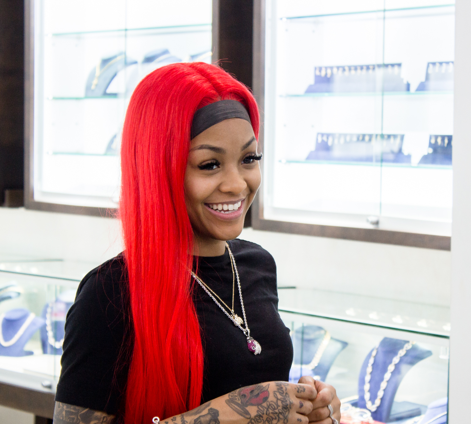 Ann Marie at Icebox in 2019